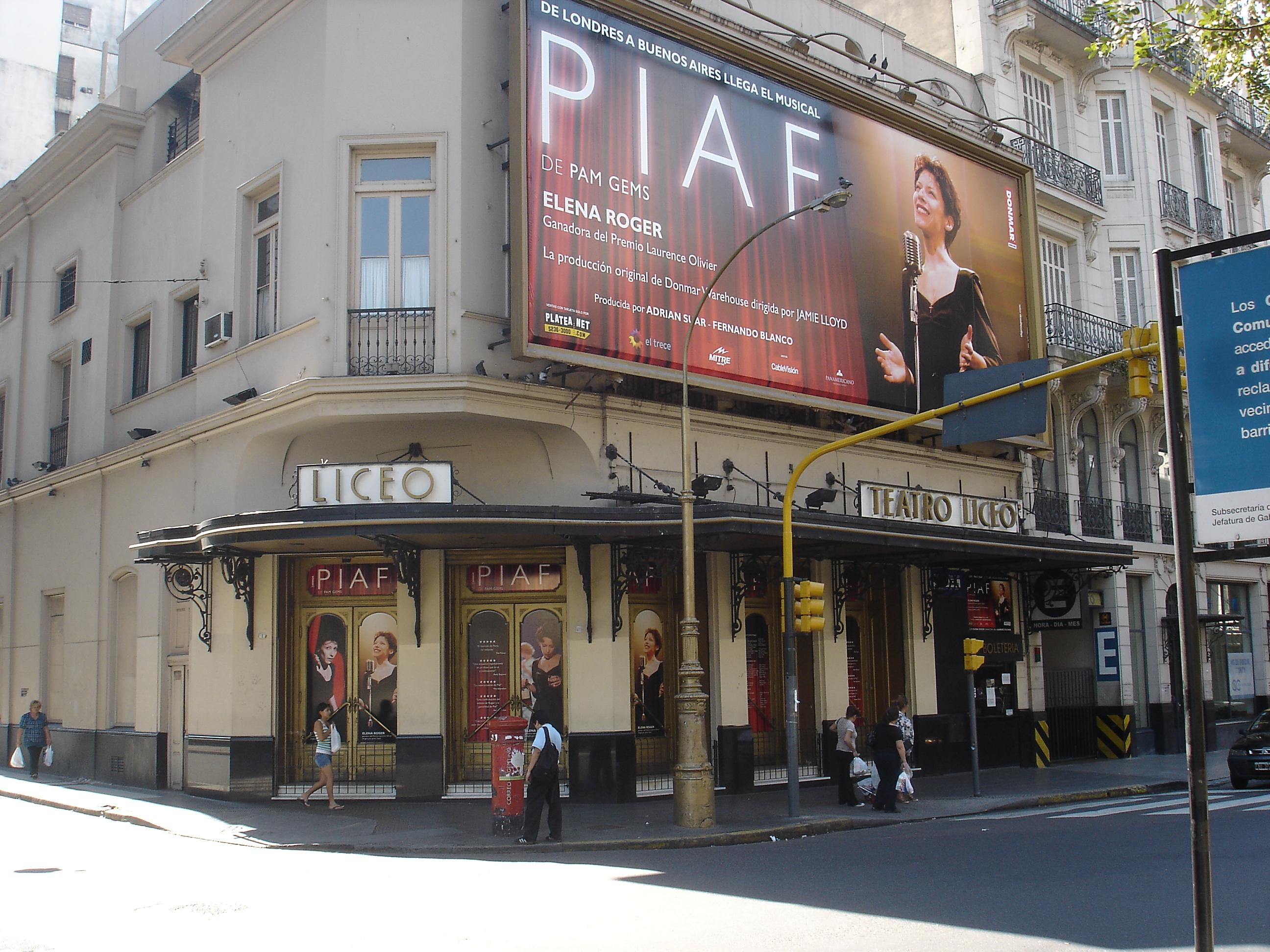 The Liceo Theatre. Rivadavia Avenue, Buenos Aires.